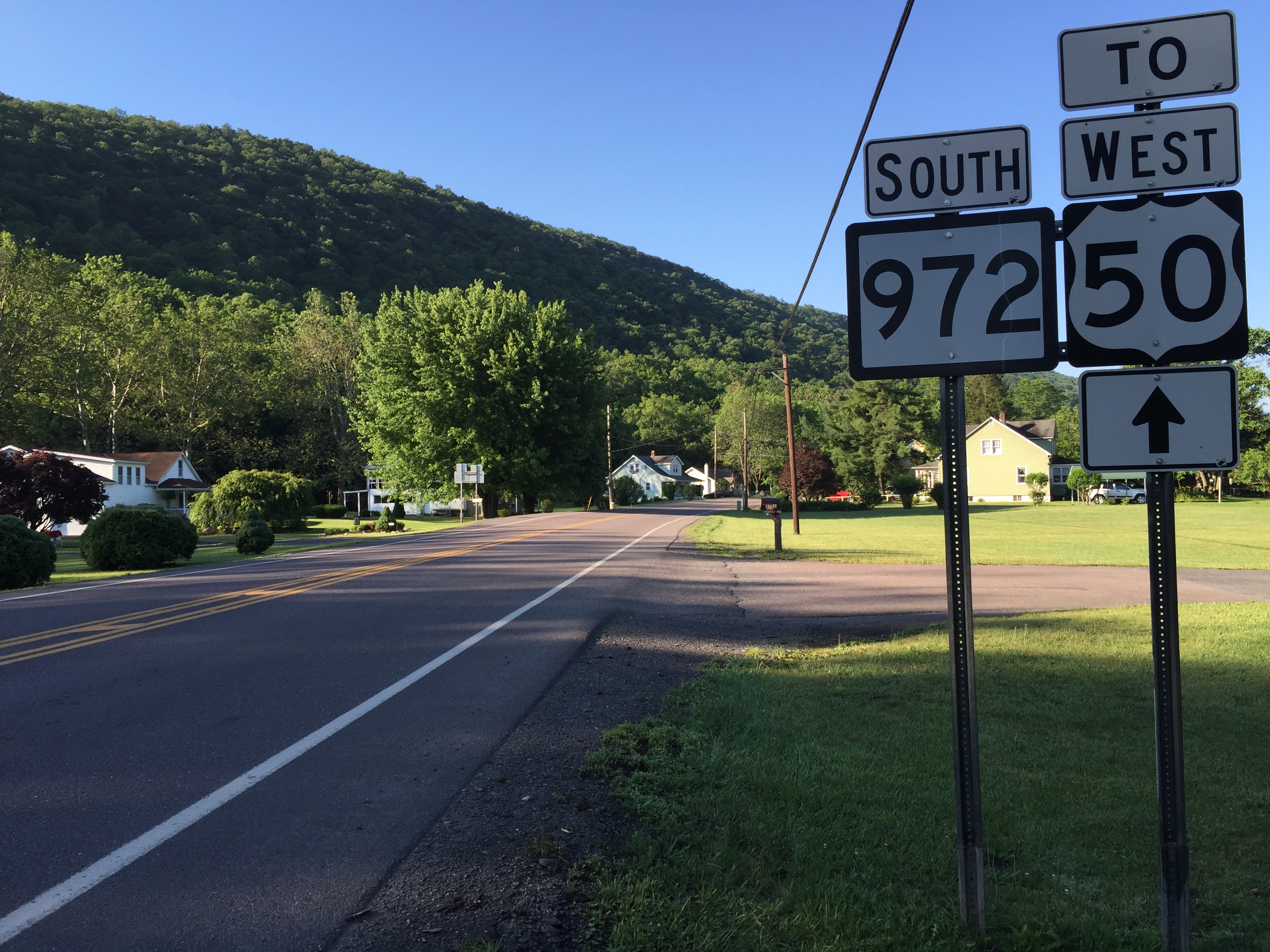 View south along West Virginia State Route 972 (New Creek Highway) at U.S. Route 220 (Cut Off Road) north of New Creek in Mineral County, West Virginia